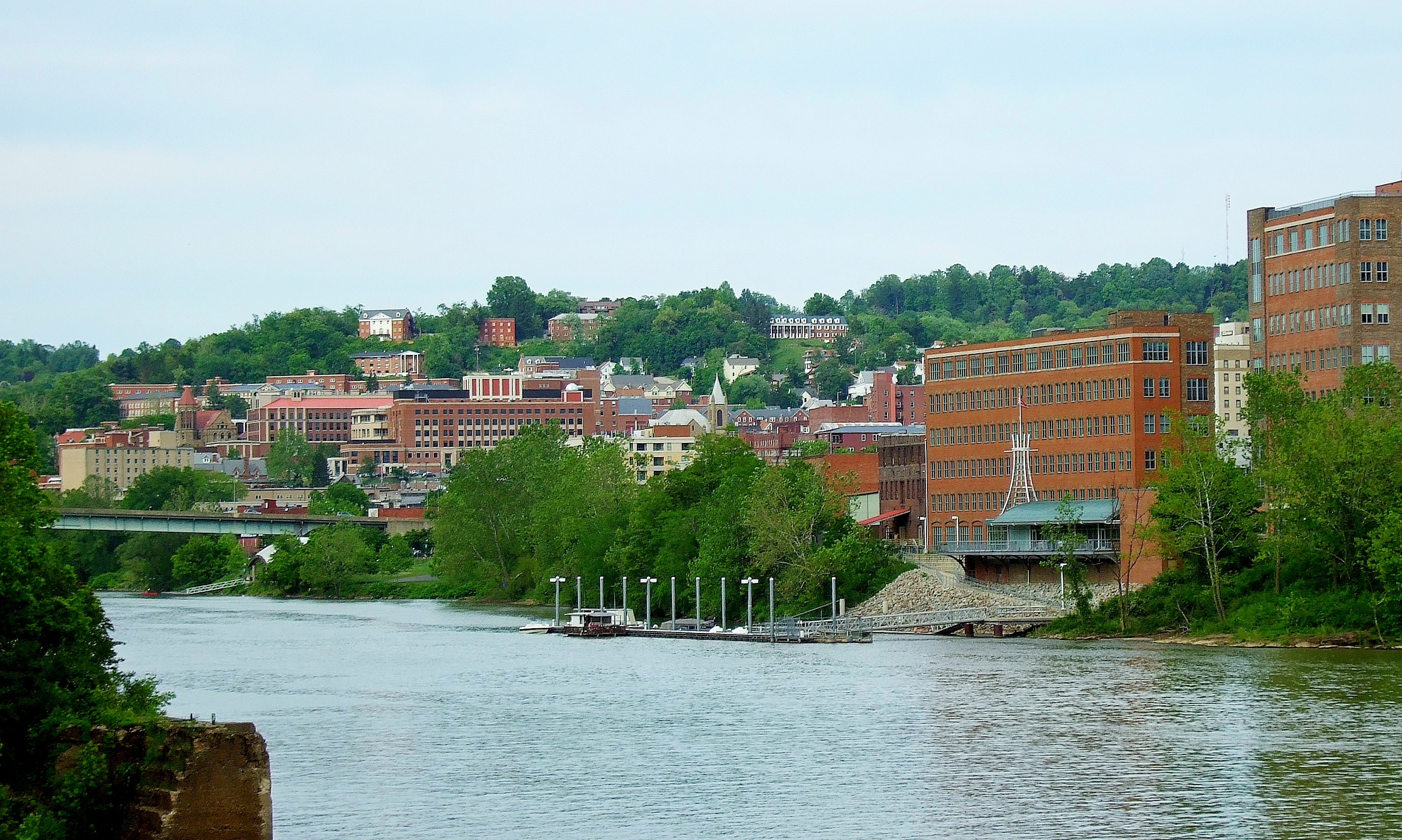 A view of Downtown Morgantown, WV as seen from the Western bank of the Monongahela River.